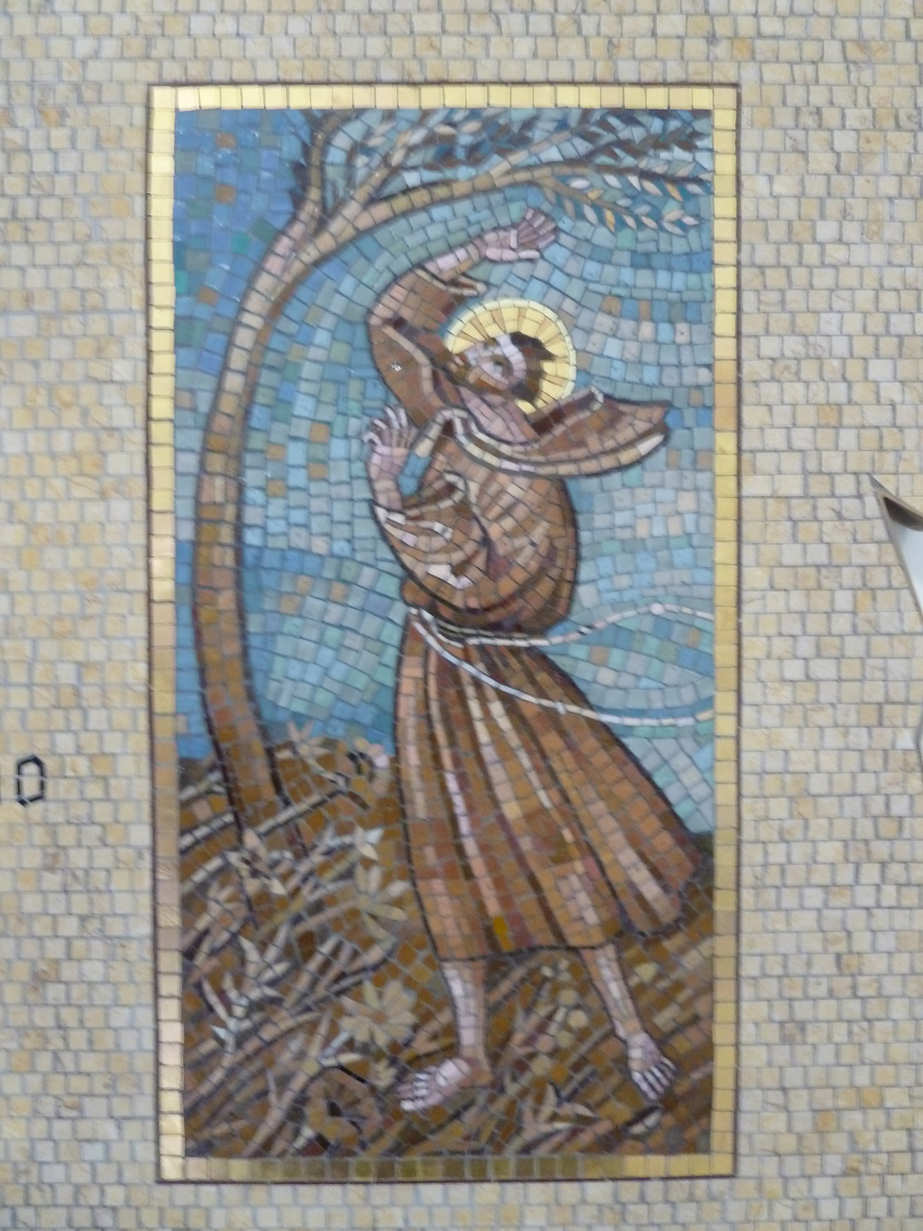 OFM General Curia : Mosaic Laudes Creaturarum